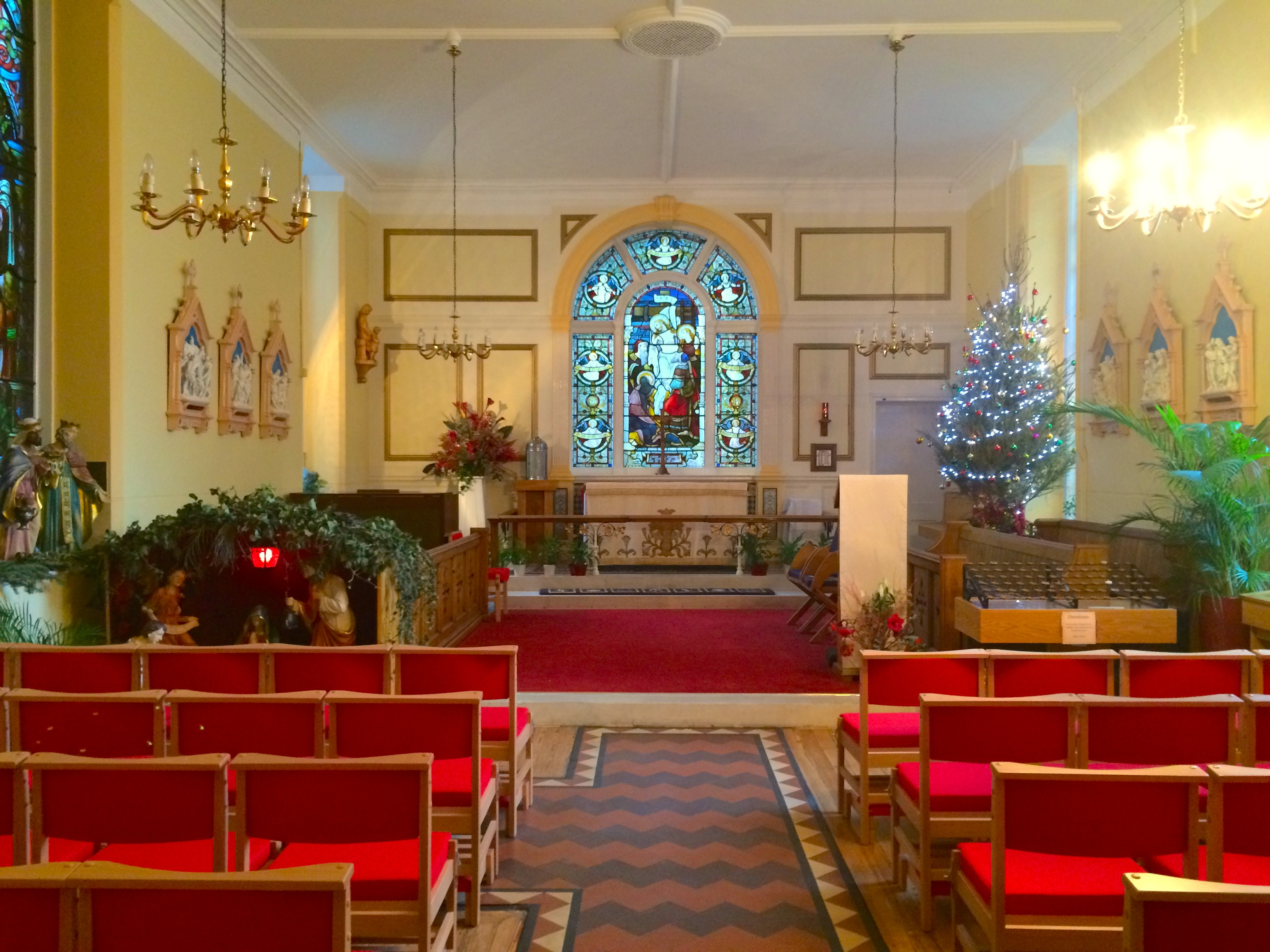 The Chapel of St Mary's Hospital, Paddington, London.